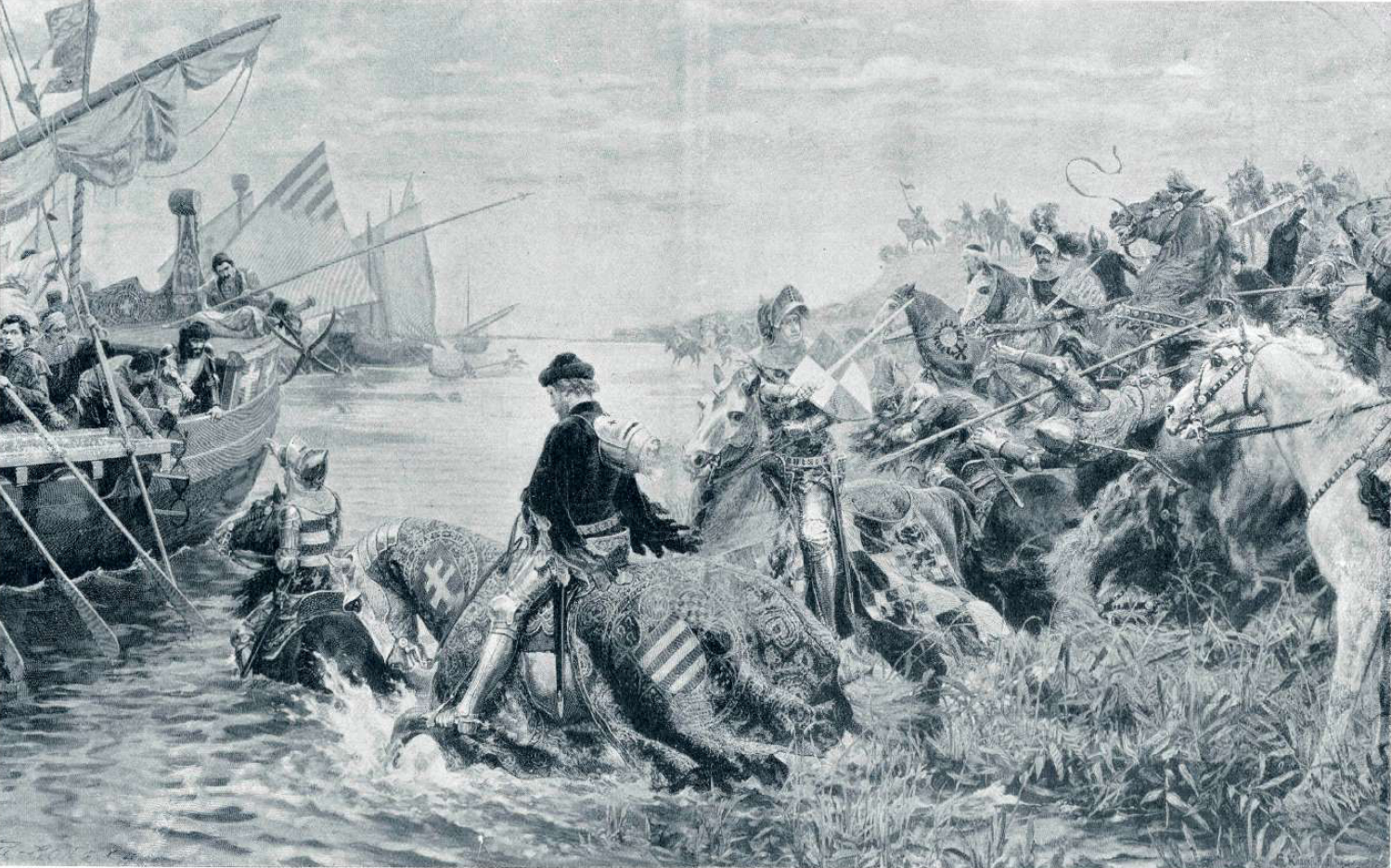 Battle with Turks at Nikopol; Count Herman of Zilli saves emperor Sigismund from turkish capture.